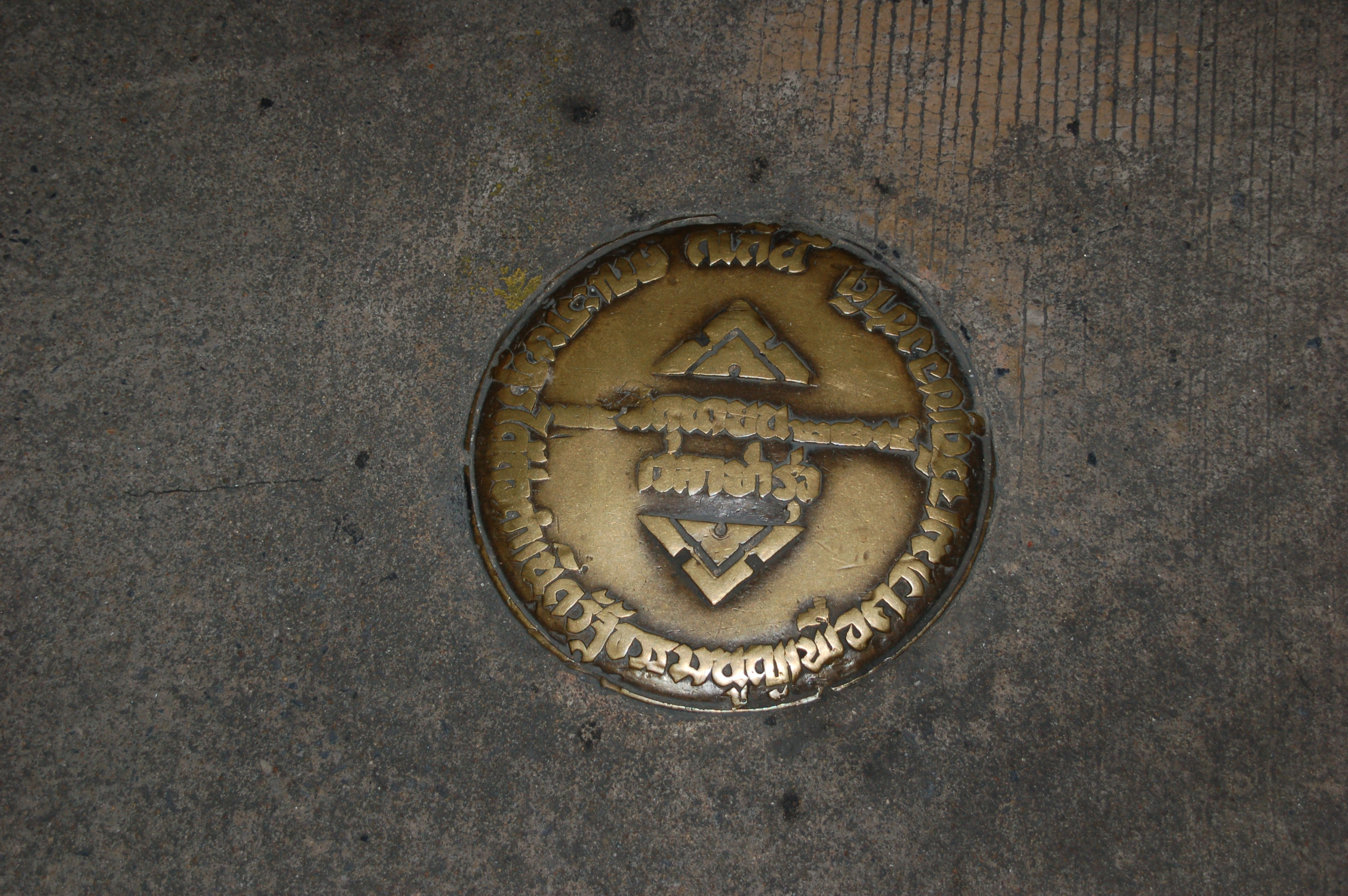 A brass plate on the road pave at Royal Plaza, Dusit Palace, noted of Siamese revolution on June 24, 1932 "...ณ ที่นี้ 24 มิถุนายน 2475 เวลาย่ำรุ่ง คณะราษฎร ได้ก่อกำเนิดรัฐธรรมนูญ เพื่อความเจริญของชาติ." 13°46′09″N 100°30′43″E / 13.769242°N 100.512017°E